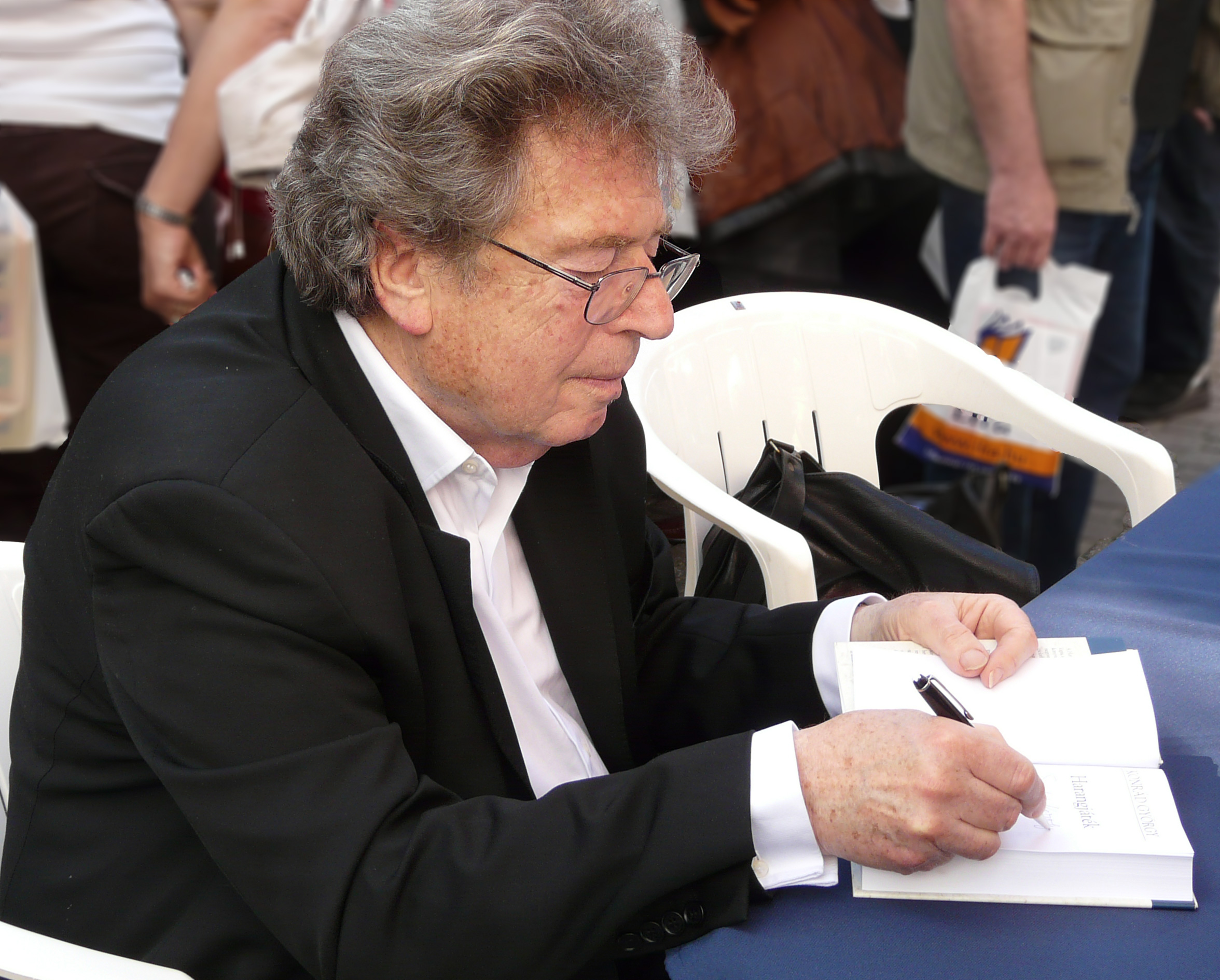 Gyorgy Konrád Hungarian writer at a book signing. Juin 2010.